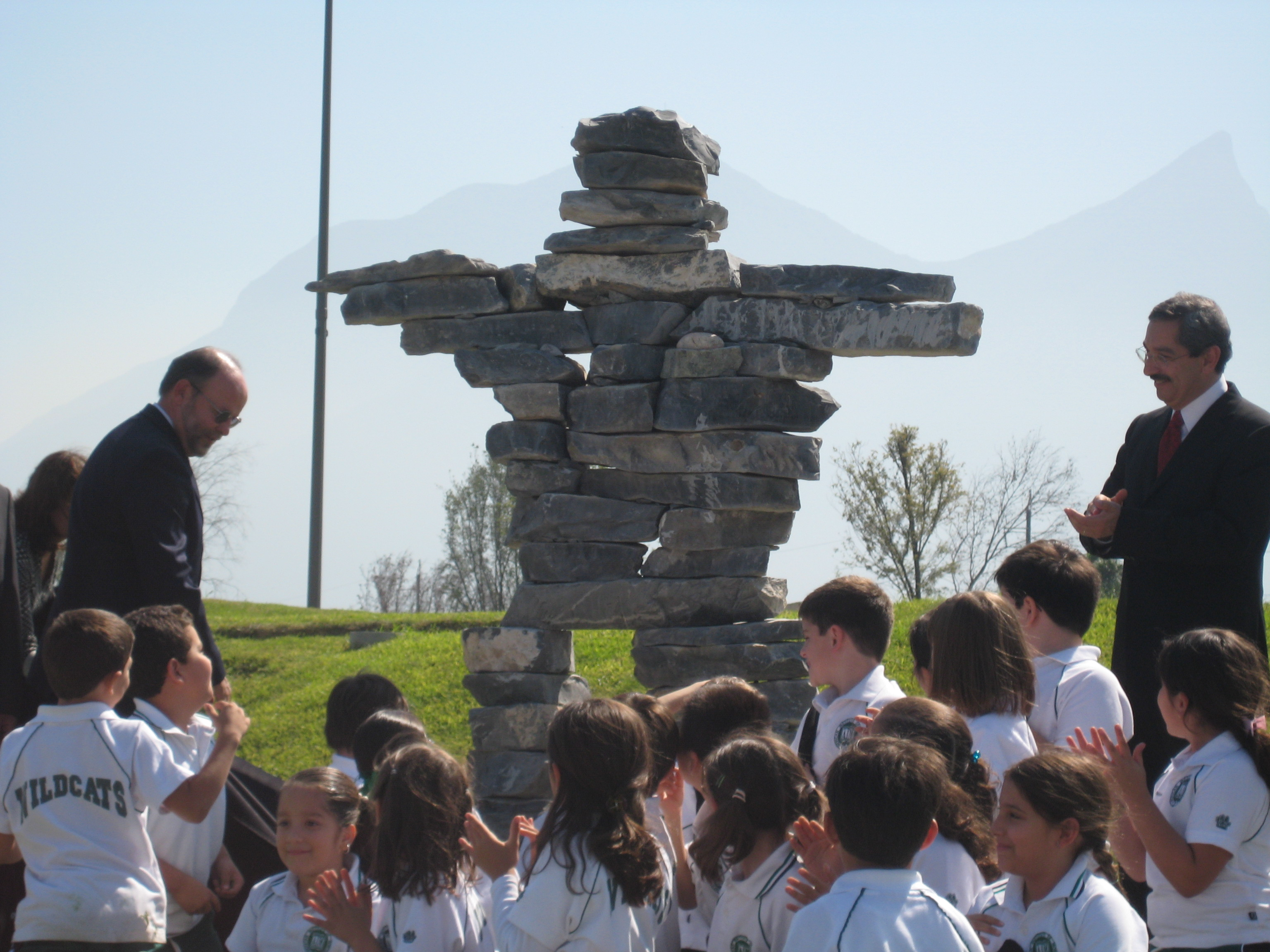 Canada’s ambassador to Mexico, Guillermo Rishchynski, left, and Nuevo León Gov. José Natividad González unveil an Inukshuk in Monterrey in northern Mexico on October 31, 2007. The Inukshuk was a gift from the Canadian Chamber of Commerce and the Government of Canada. Photo by Luke Betts